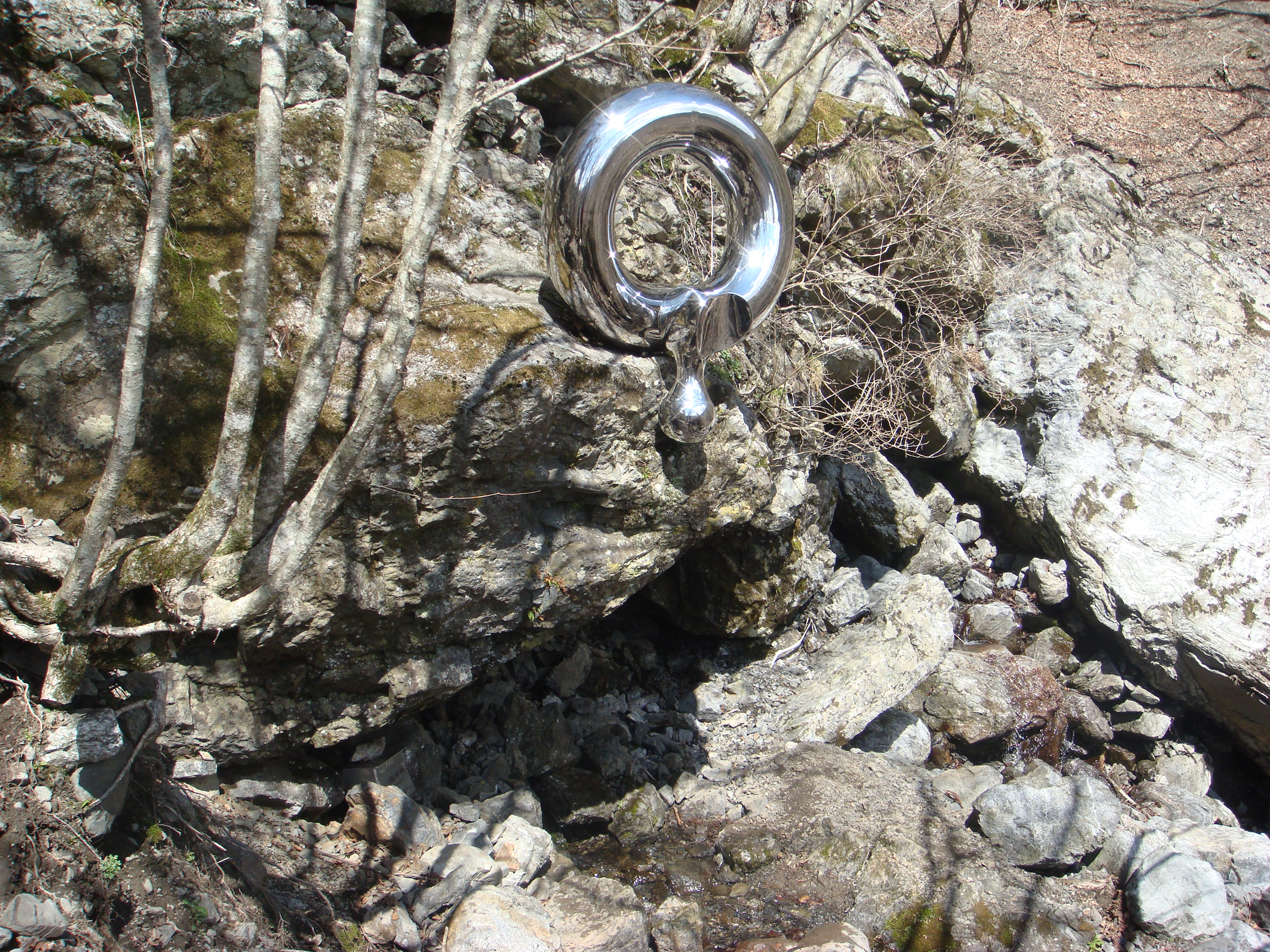 nakagawariver the source(Tokushima-Japan)